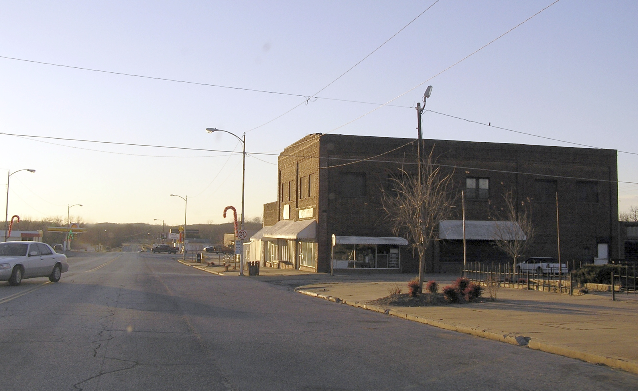 Main Street in Weleetka, Oklahoma.